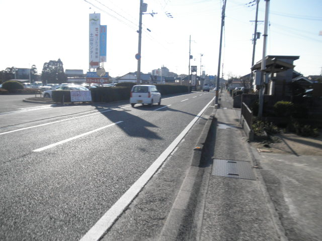 Inamitown Rokubuichi Hyogopref Hyogoprefectural road 514 Shijimi Tsuchiyama line